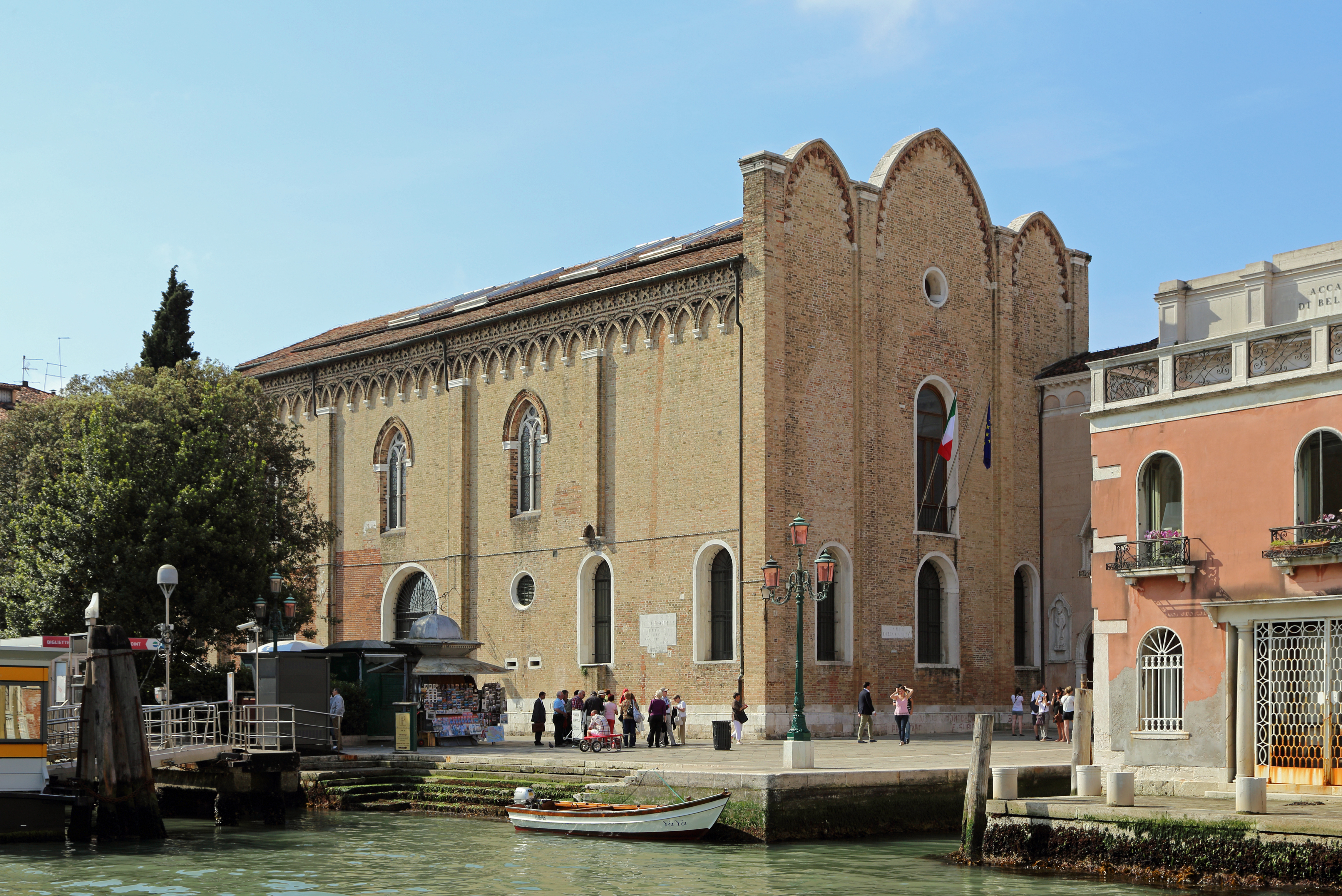 Venice (Italy): the former church of Santa Maria della Carità, shortly called 'Carità'